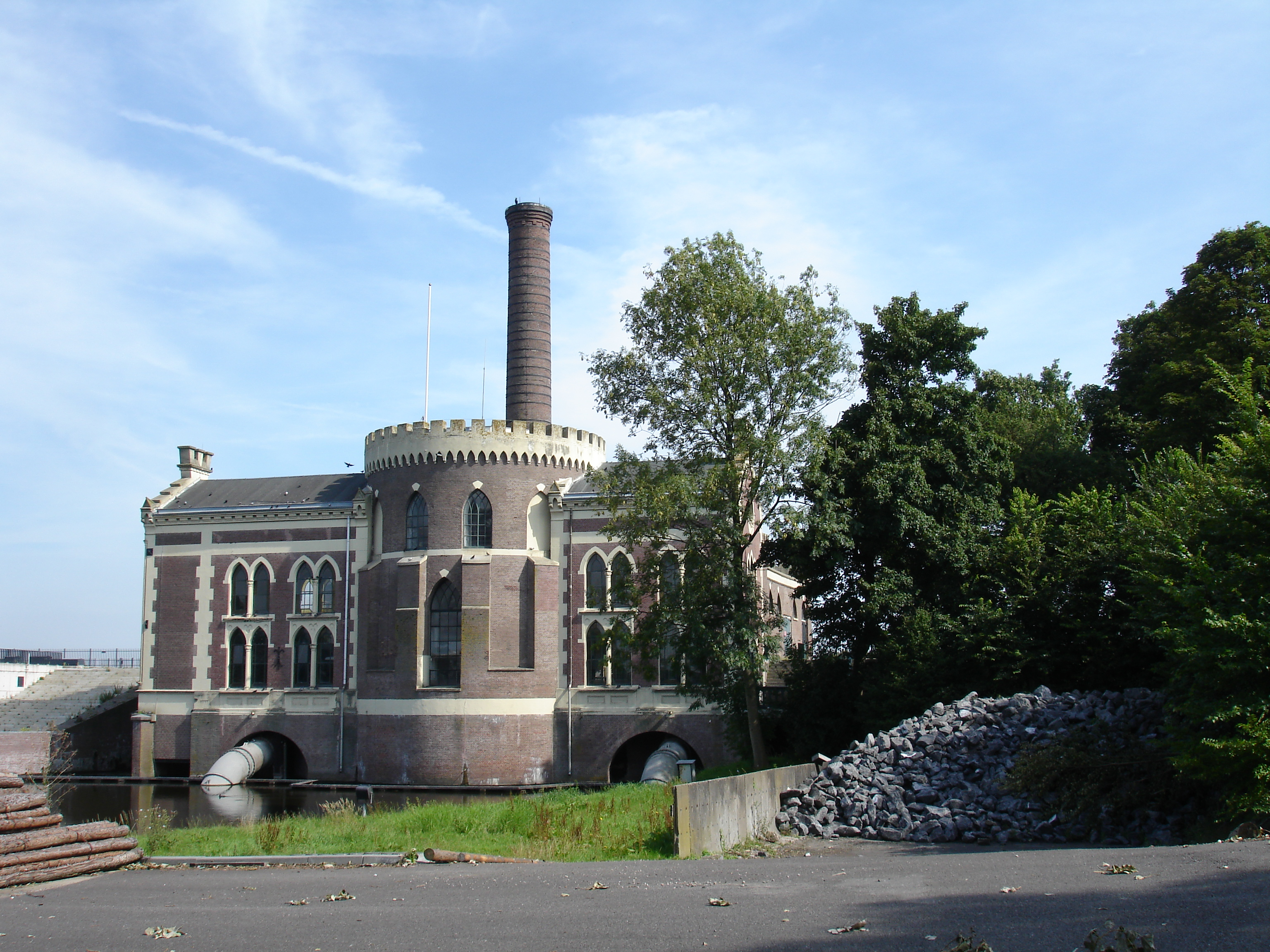 Pumping Station De Lijnden, Haarlemmermeer, The Netherlands. The station was builded in 1849, the style is neogothic.